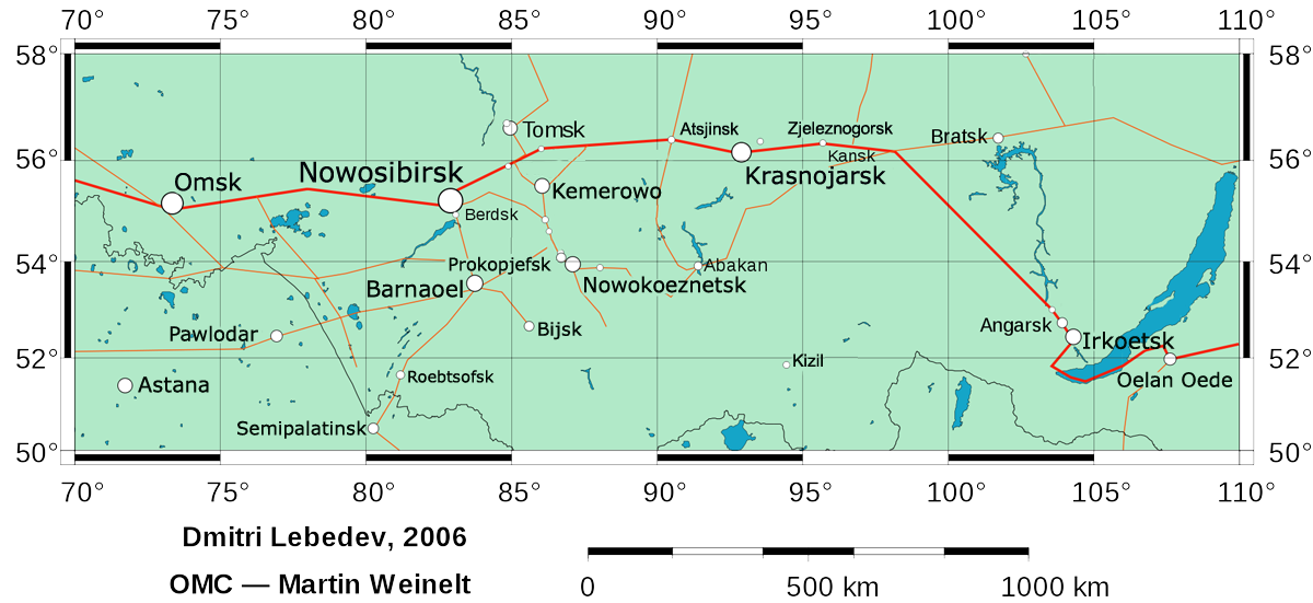 Main cities of Siberia with population about 500,000 and more. The areas of the circles indicathe the cities' sizes. The cities include Omsk, Novosibirsk, Tomsk, Barnaul